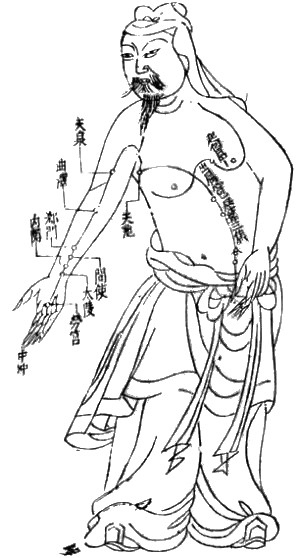 Acupuncture chart from the Ming Dynasty: The Pericardium Meridian of Hand-Jueyin